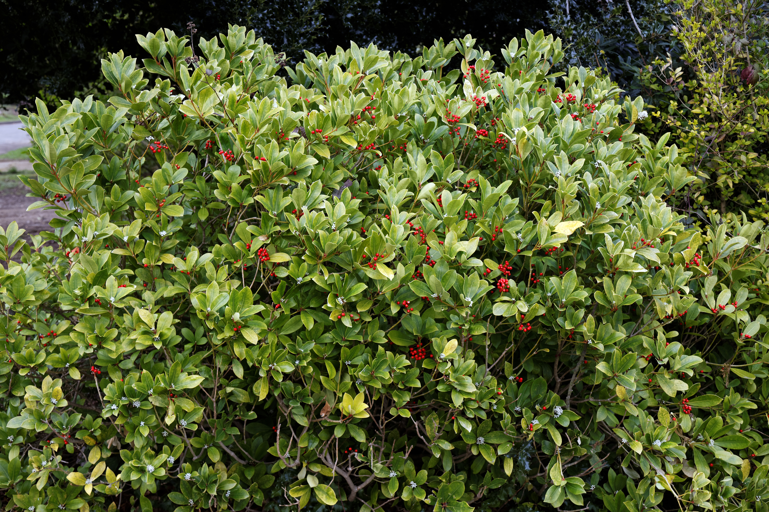 A Skimmia japonica on the City of London Cemetery's Southgate Road in Newham, London, England.Camera: Canon EOS 6D with Canon EF 24-105mm F4L IS USM lens.Software: large RAW file lens-corrected, optimized and downsized with DxO OpticsPro 10 Elite, Viewpoint 2, and Adobe Photoshop CS2.